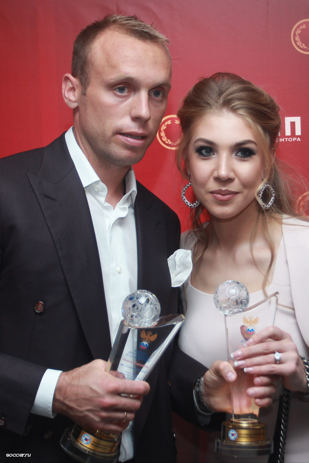 Denis Glushakov with his wife